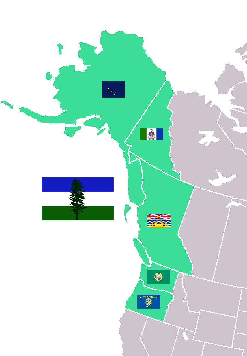 Map of Cascadia.